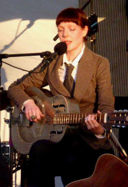 Mary Hampton playing at Packwood House 2011 as part of her Folly tour.